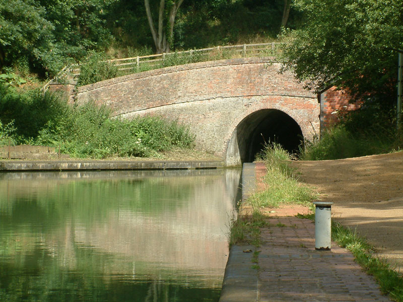 Southern entrance to Blisworth Tunnel on the Grand Union Canal near Stoke Bruerne in Northamptonshire, UK Photograph by Stephen Dawson, 10 July 2004